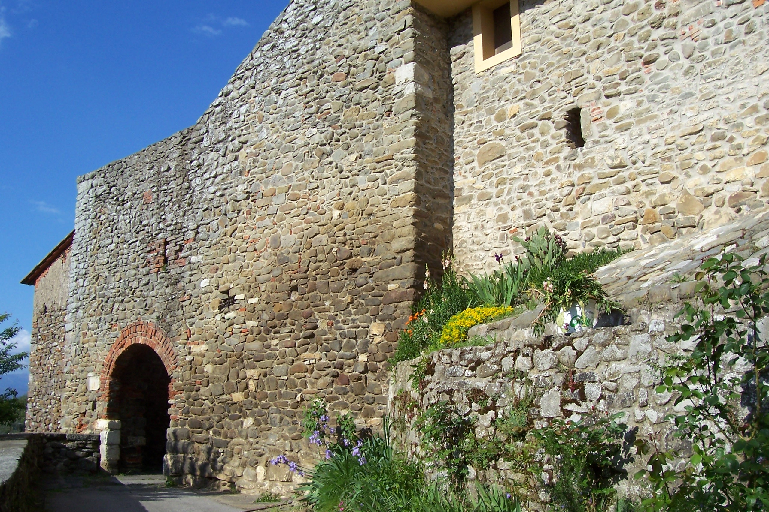 One of the ancient entrance to the citadel of San Biagio Tower